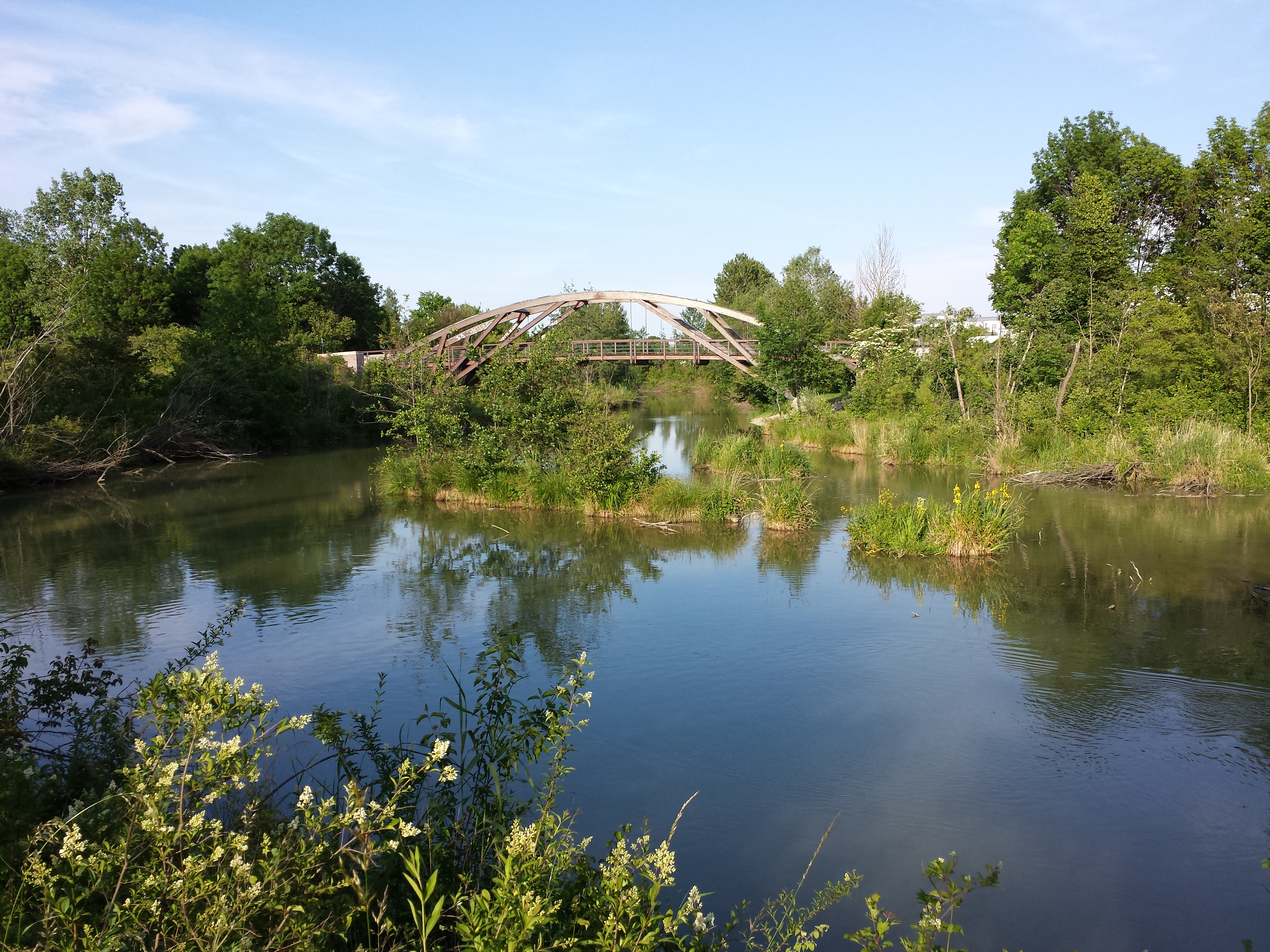 Marchfeld canal in Vienna-Foridsdorf